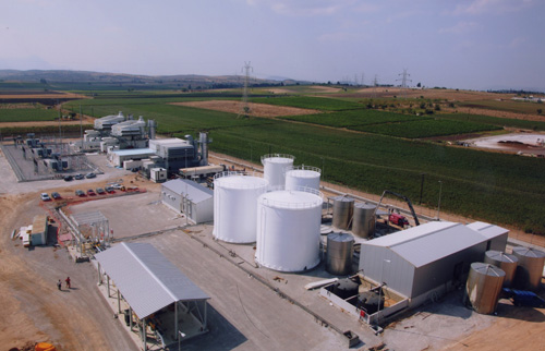 dfdsabvsfb